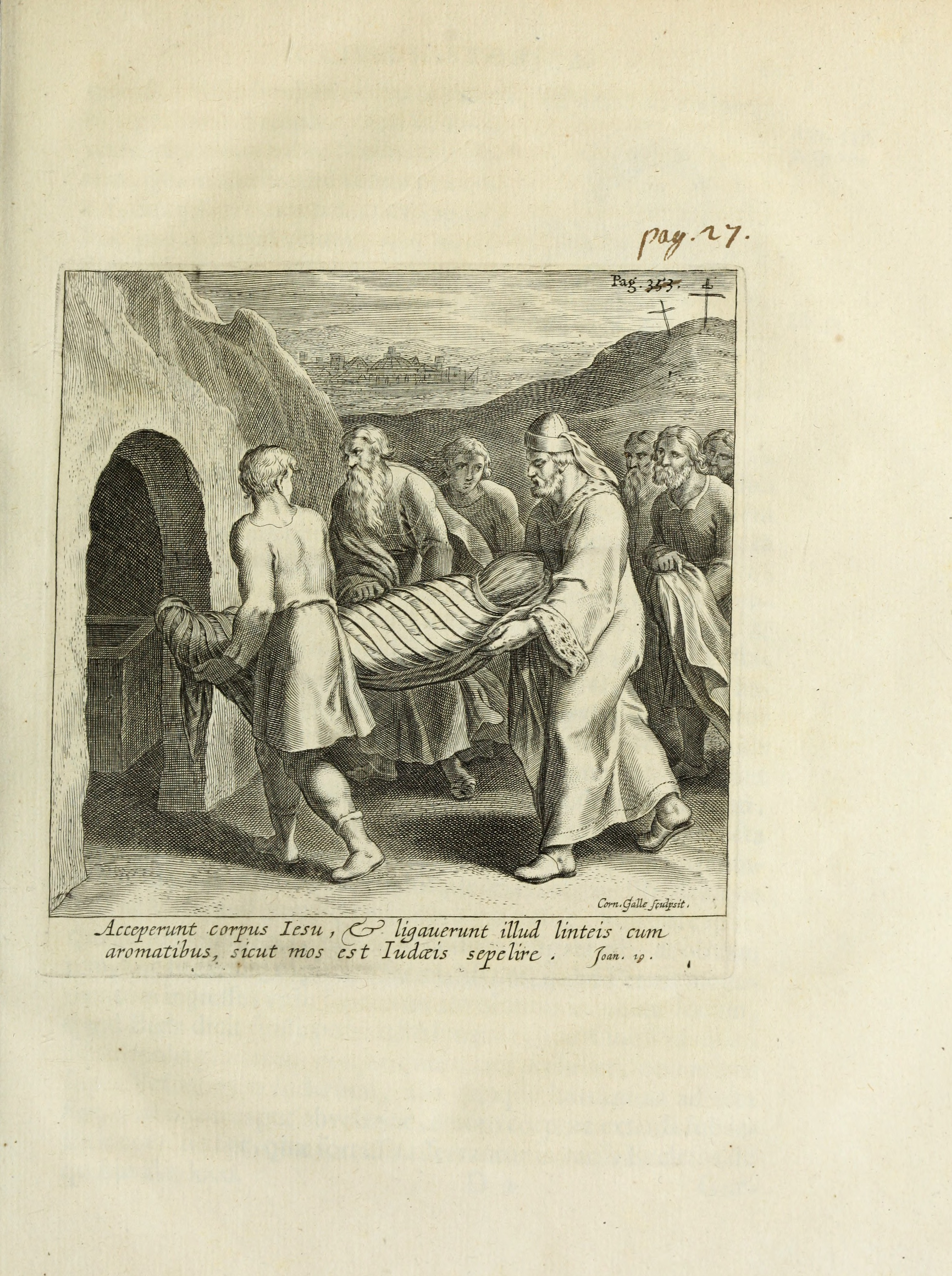 Title: Jo. Jac. Chiffletii De linteis sepulchralibus Christi Servatoris crisis historica Year: 1688 (1680s) Authors: Chifflet, Jean-Jacques, 1588-1660 Chifflet, Jean-Jacques, 1588-1660. Annulus pontificius Pio papae II Chifflet, Jean-Jacques, 1588-1660. Vetus imago Sanctissimae Deiparae in iaspide viridi Galle, Cornelis, b. 1642 Jumelers, Peter Plantijnsche Drukkerij Subjects: Jesus Christ Burial clothing Holy Shroud Publisher: Ad exemplum an. 1624 editum Antverpiae : Ex officina Plantiniana Text Appearing Before Image: is, Nonius faciemdiftamcenfet: & fuperficiescorporum di&aeft quafi fuperiorfacies , five anterior cujufque rei afpectus. Antiquiores Hebraeifaciem D^fi Vanim vocant, a radice X\1h Panah, quod eft refpicere:Grcecio^tv, & r^auTmy a videndo & profpiciendo 5 itautcujufvis objefti pars anterior, quas fub vifum cadit, refte faciesaEzech. dici poflit, rerum etiam inanimatarum ,ut facies a agri, facies bbWc.o. templi, facies c coeli & teme. Quidniergocapitis & facieifu-cLuc. 11. darium appellemus, linteumfepulchraleChriftiDomini, totiantico corpori fuperinduftum, antiquiflimo more , quo Patro-cli quondam a Trojanis ? In lettum imponcntes, linteo fubtih texerunt capite ufque ad pedes, defuper autem alba vejte.Forfan & de fimiii velo capienduseft Senecadocusin Confo-latione ad Marciam : liberim C&Jar pro rojlris laudavit filium,jletitque in confpectu pofito corpore , interjefio tantum velamento yquod Pontificis oculos a funere arceret. Funebria ej ufmodi velamen- Text Appearing After Image: '